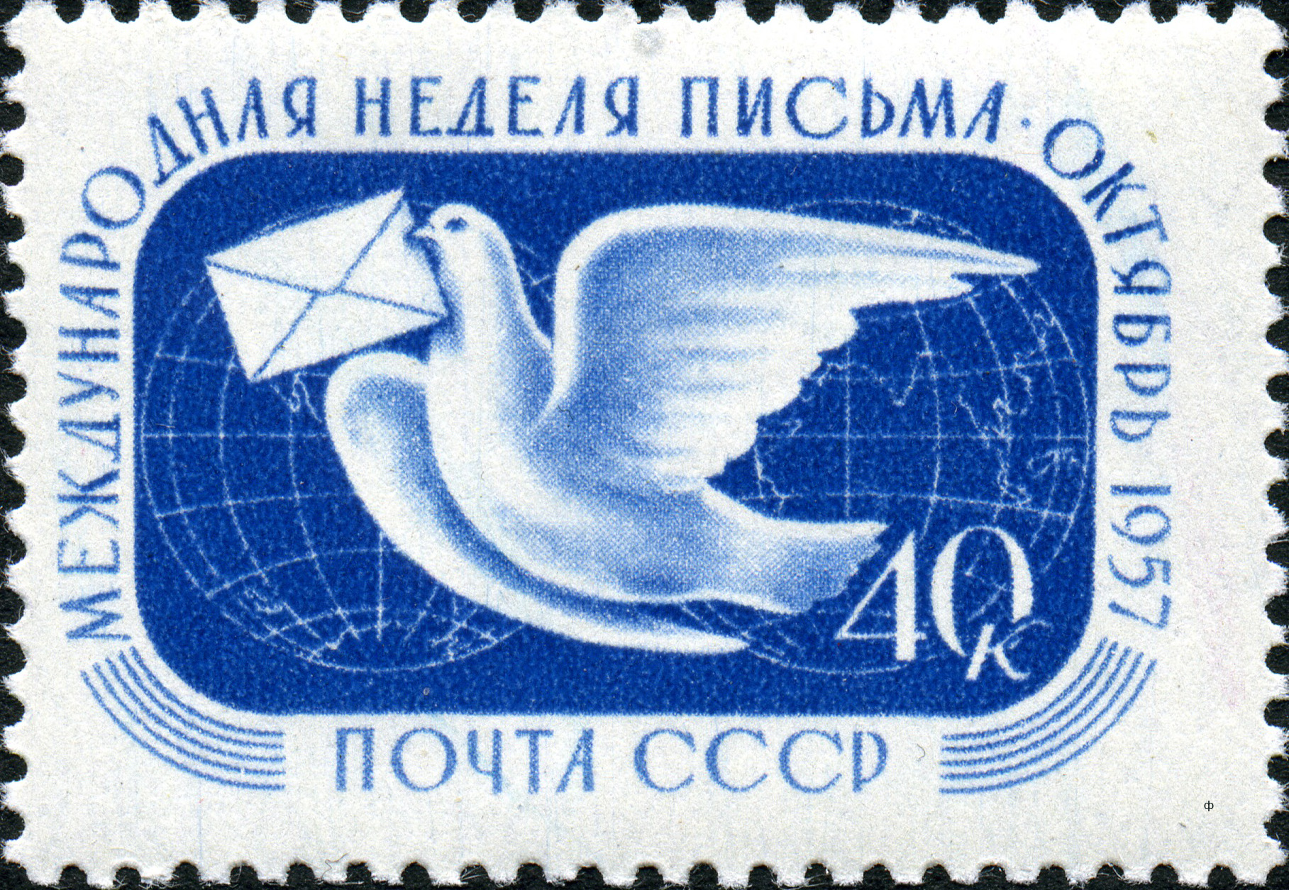 Stamp of the Soviet Union, International Letter Week, 1957, CPA 2059.